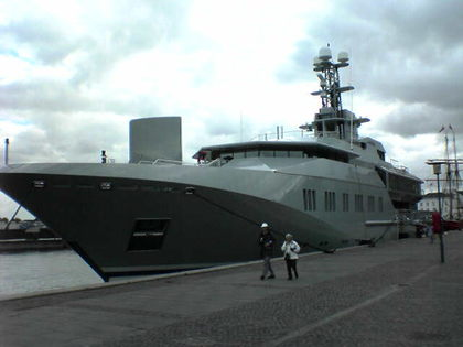 Picture for MY Skat